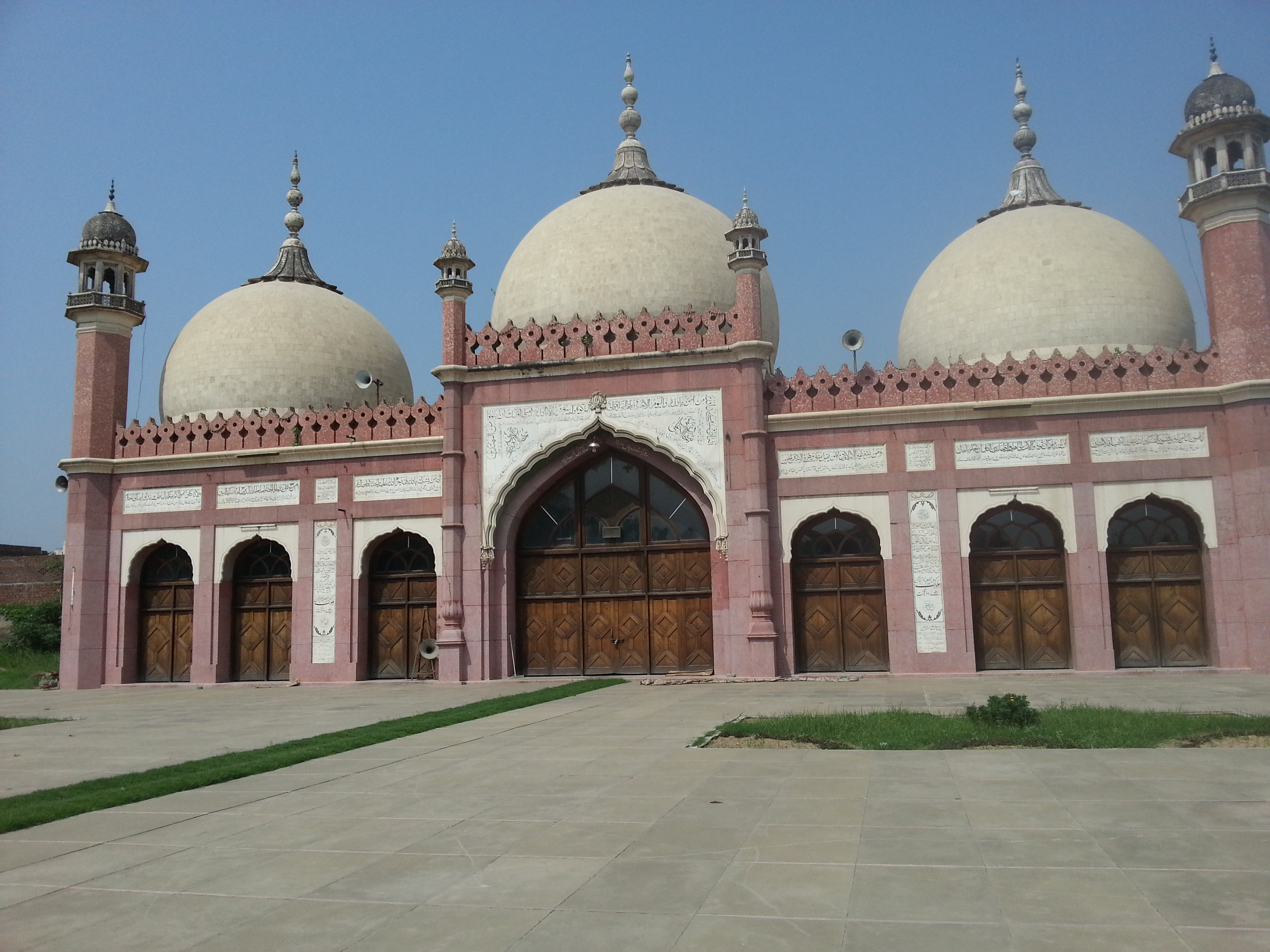 Eid Gah Gujrat is the oldest mosque in Gujrat. It has the Mughal's Architectural look. Though it is small but it resembles a lot with Badshahi Mosque Lahore. It is located on the Grand Trunk (G.T) road Gujrat. This is a photo of a monument in Pakistan identified as the PB-U-69